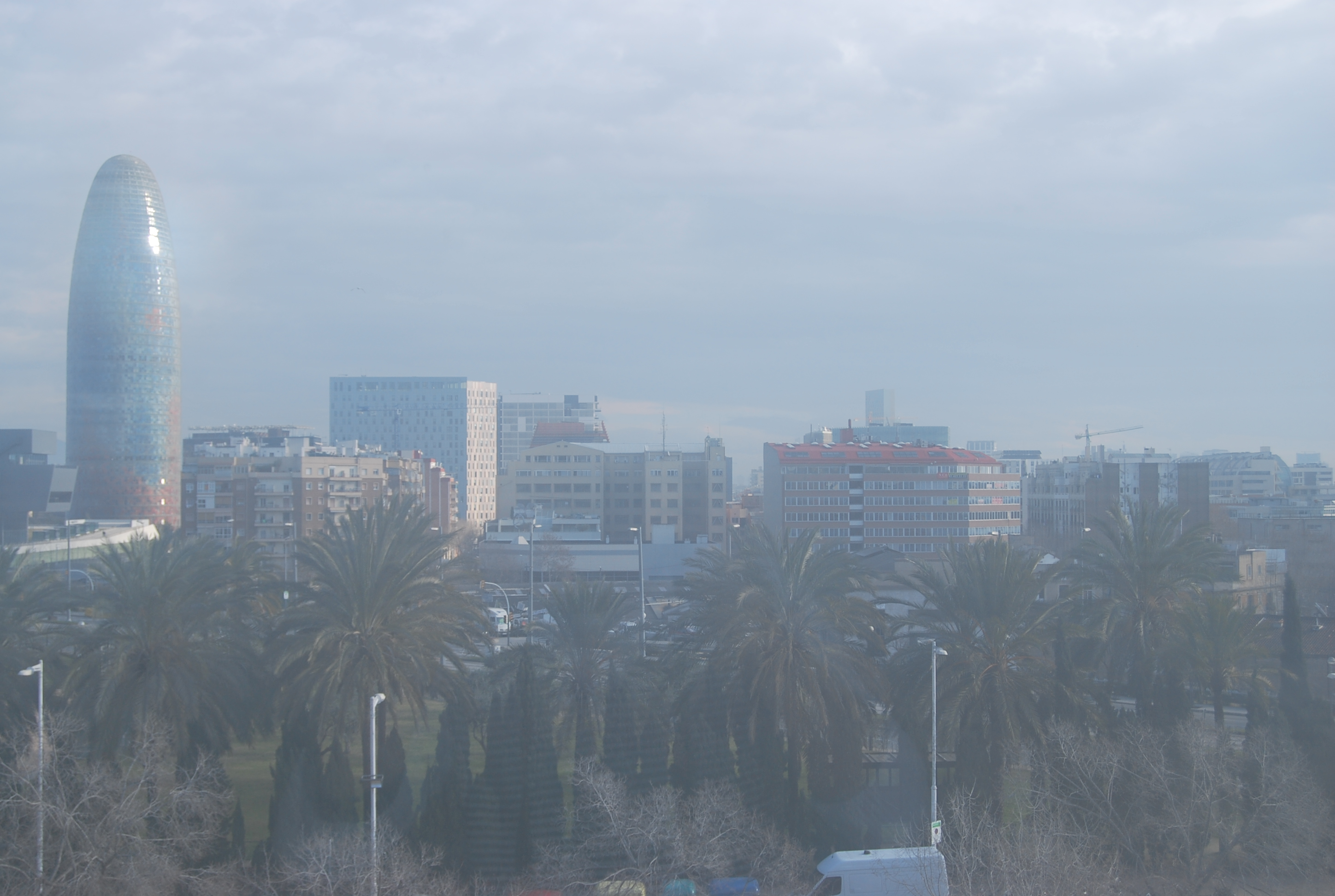 Barcelona (Pl. Glòries)